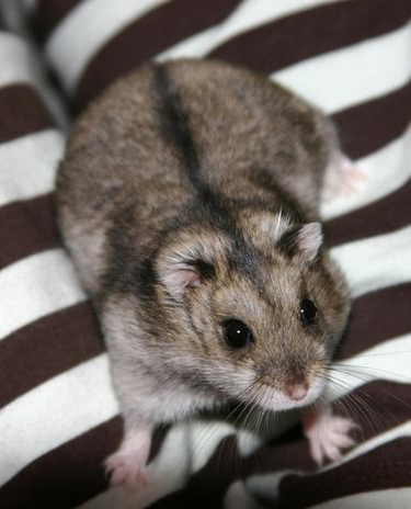 A Campbell's dwarf hamster, showing its dorsal stripe.